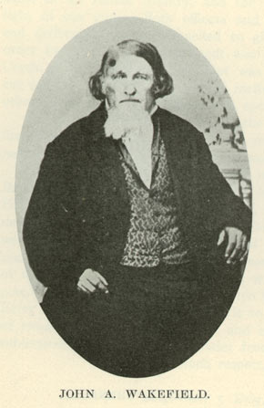 John Allen Wakefield, distinguished for services in the war and for writing in 1834 (published at Jacksonville, Ill., the same year), the first history of the same. From his only portrait, owned by his daughter, Mrs. Emily Terry, of St. Paul, Minn., and now first published (1903).